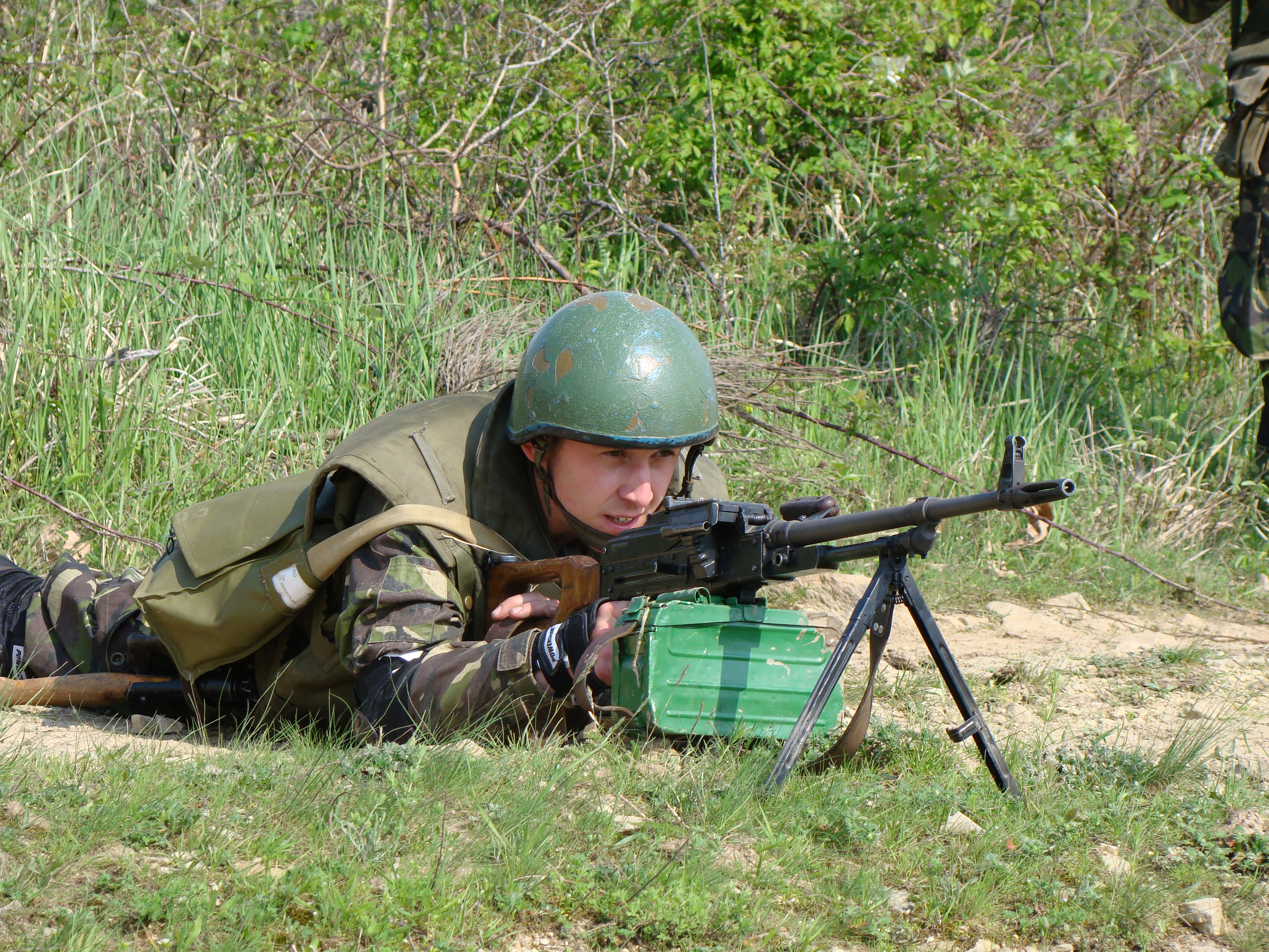 Romanian soldier during a military exercise of the 191st Infantry Battalion.